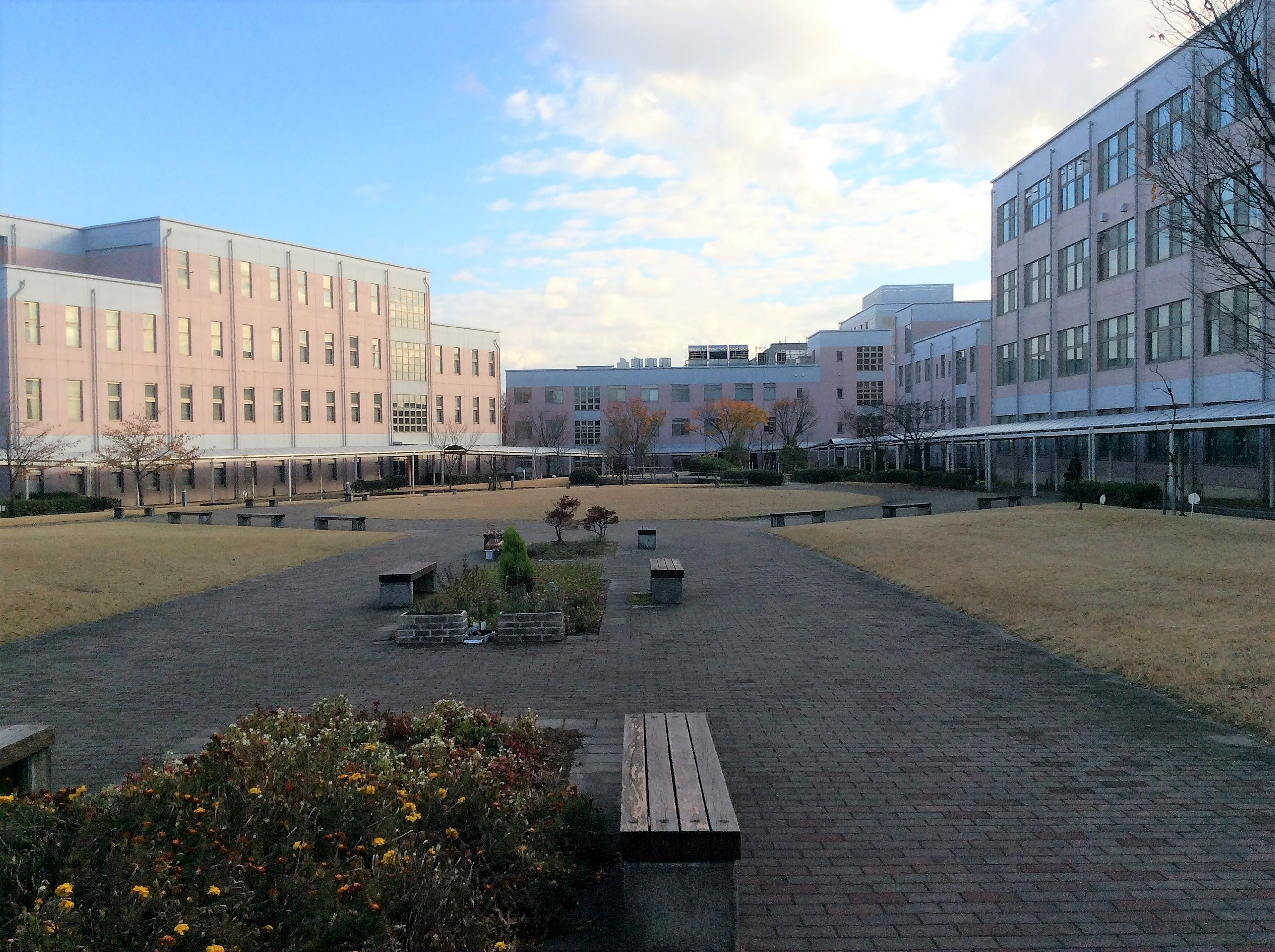 some of lecture buildings of Niigata University of Health and Welfare